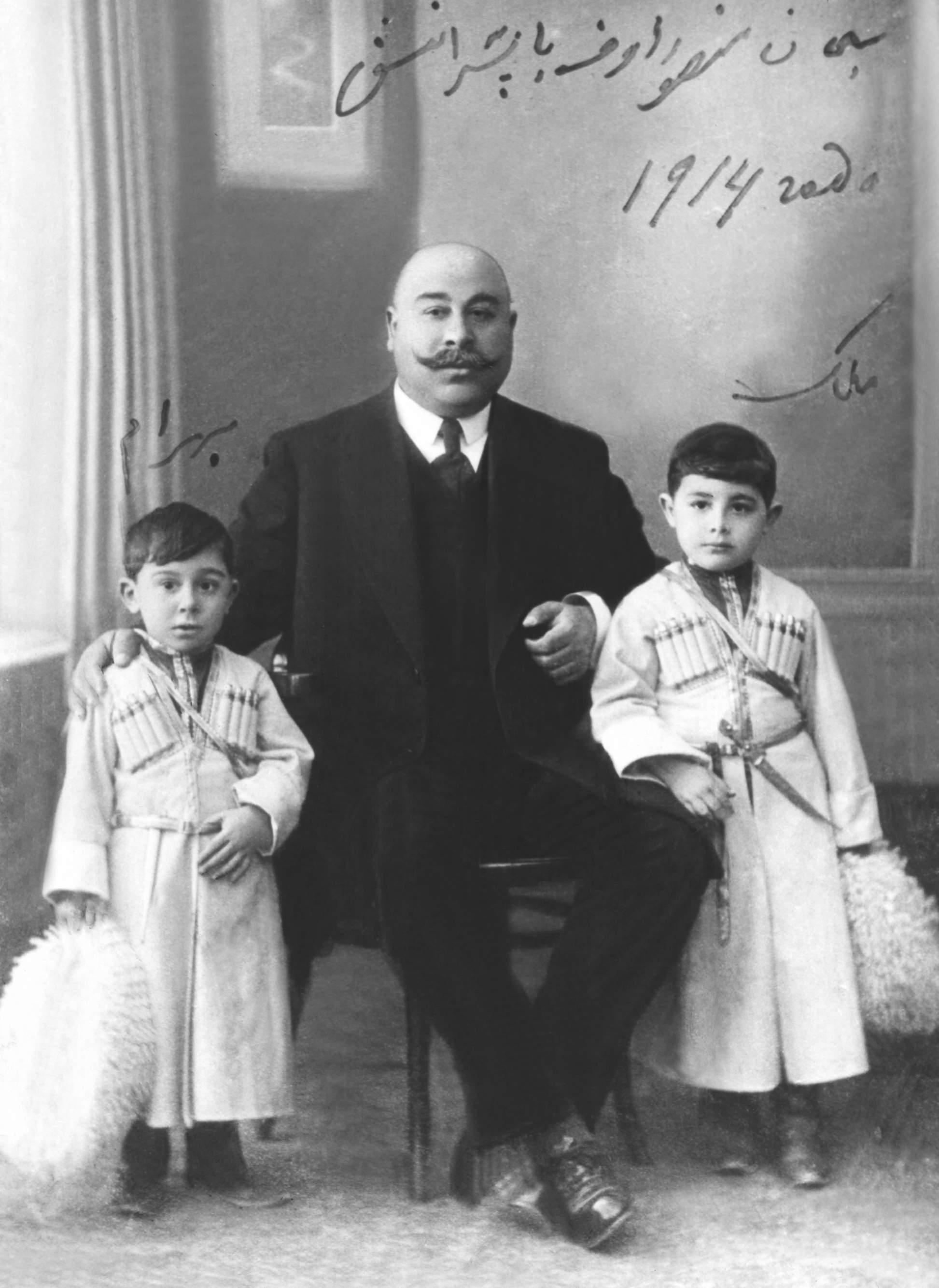 Meshadi Suleyman Mansurov and children